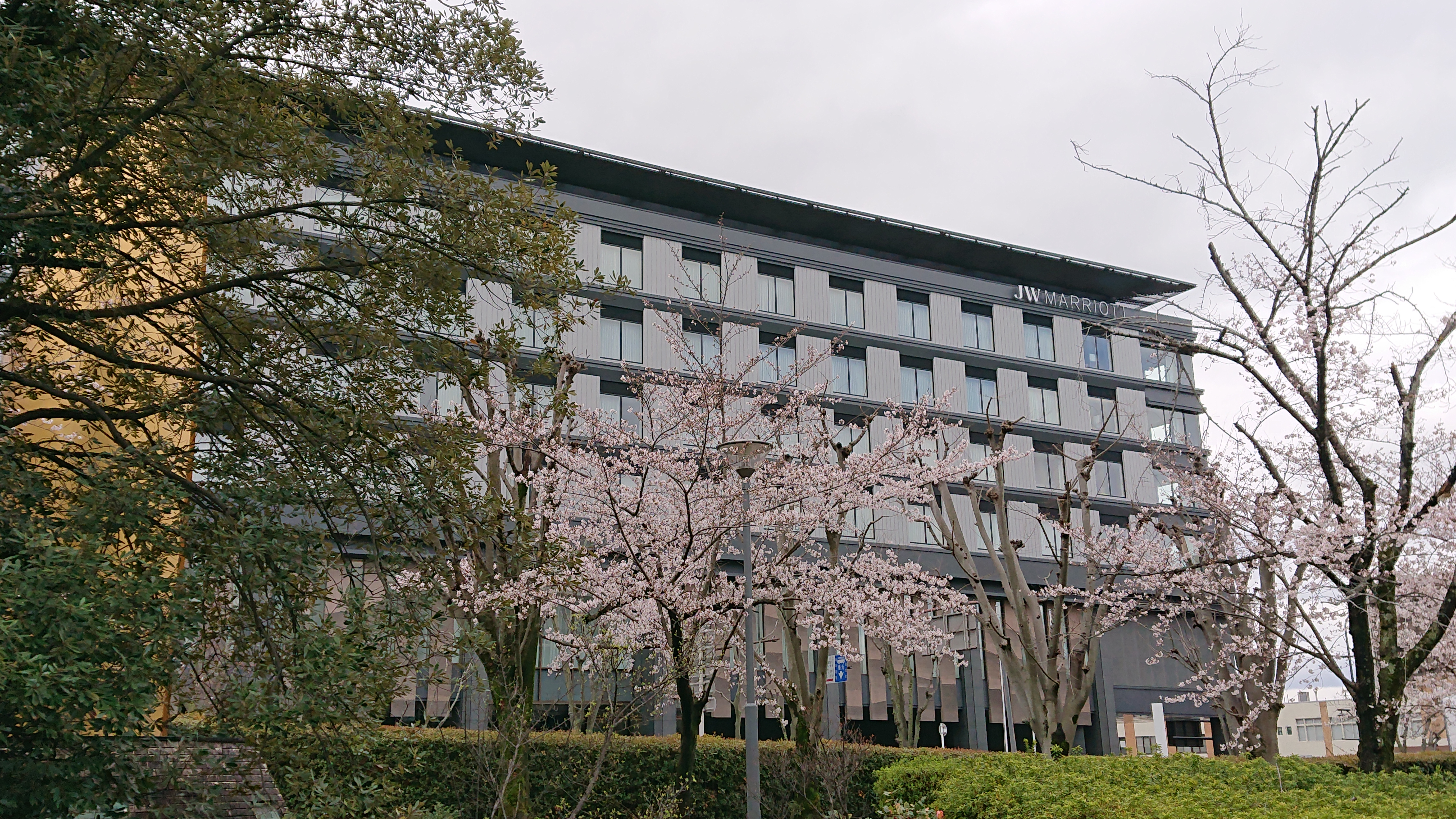 Photos of the entire JW Marriott Hotel Nara